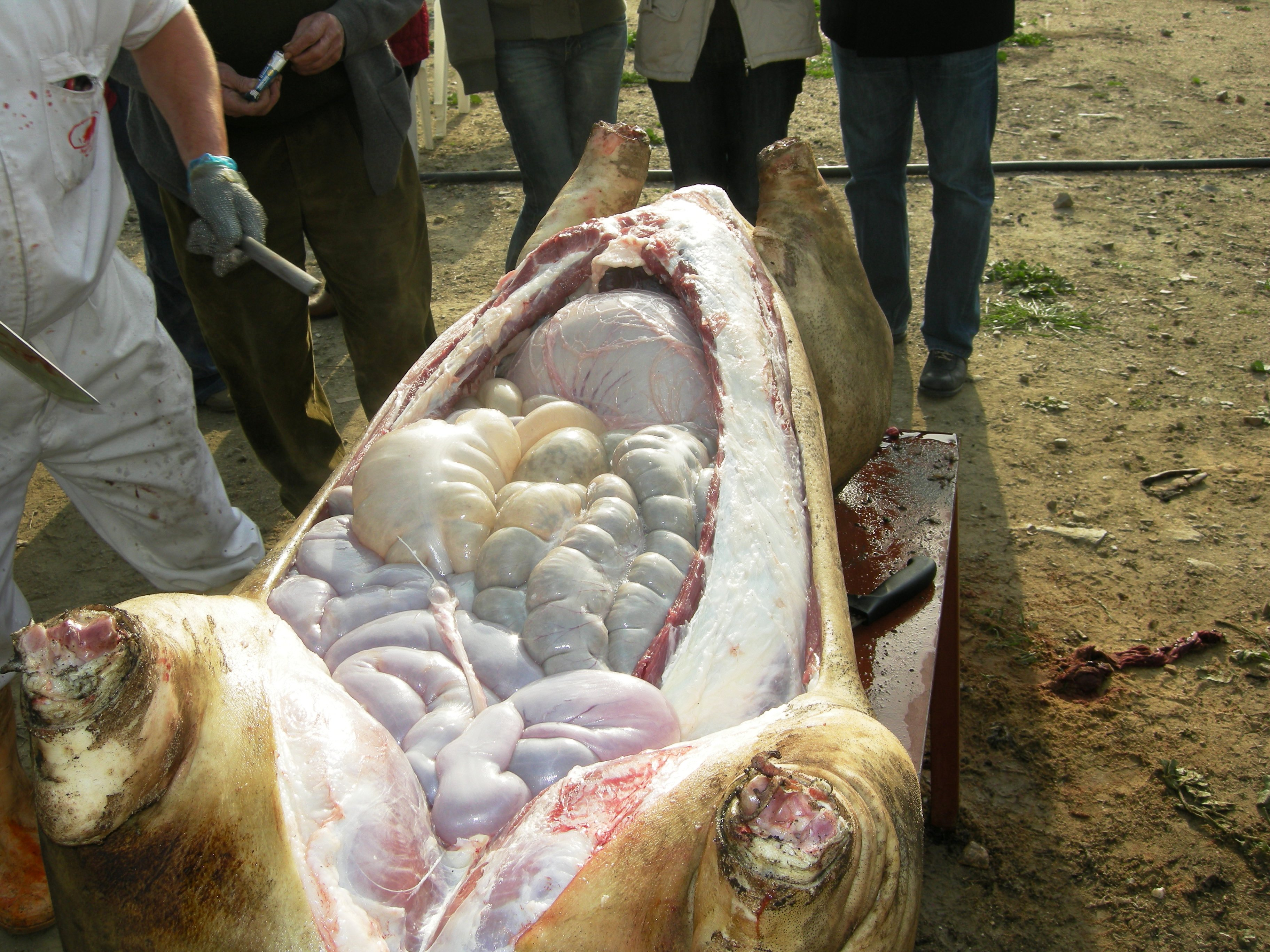 Open channel pig slaughter